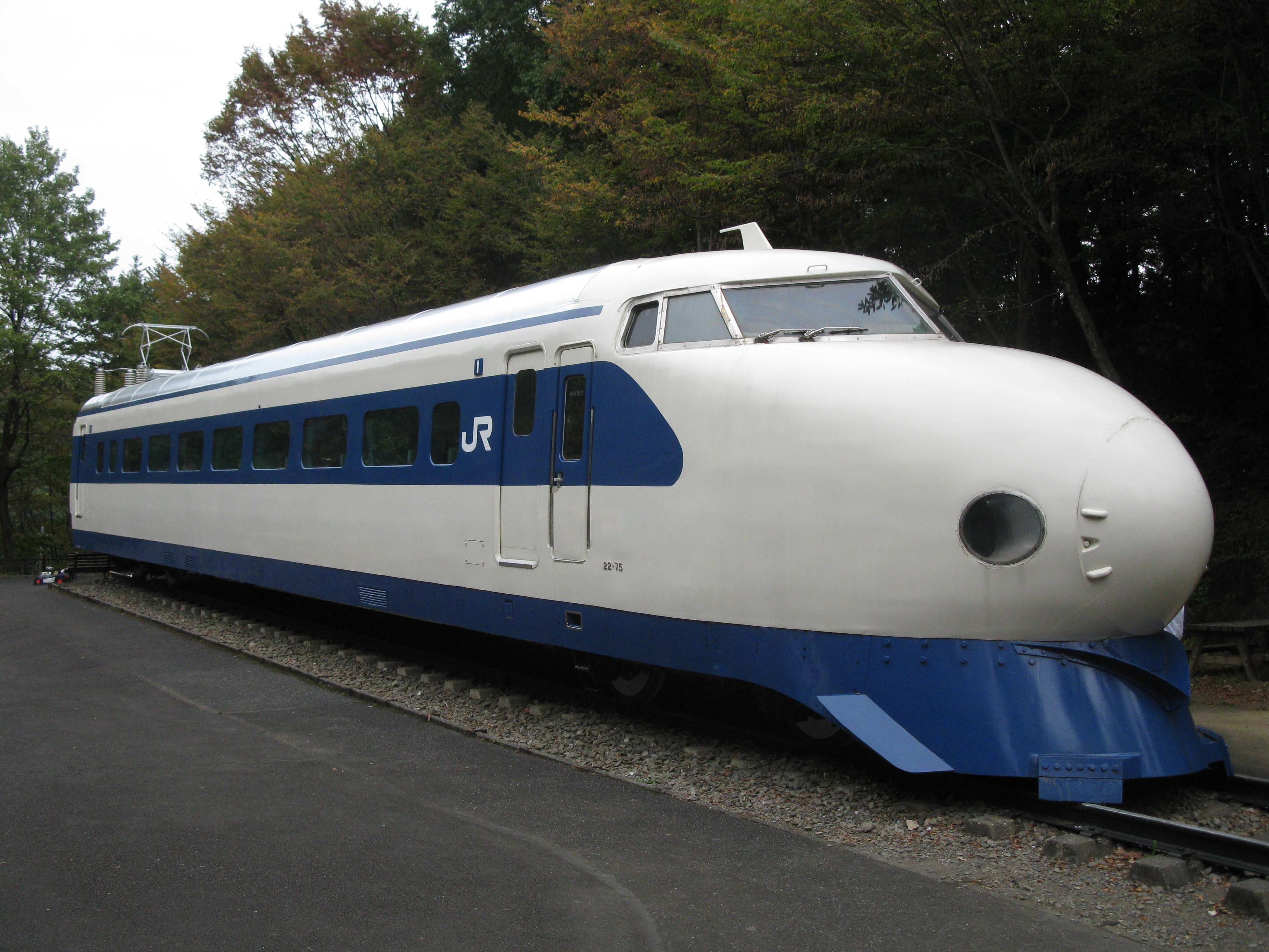 0 series shinkansen car 22-75 preserved at Ome Railway Park